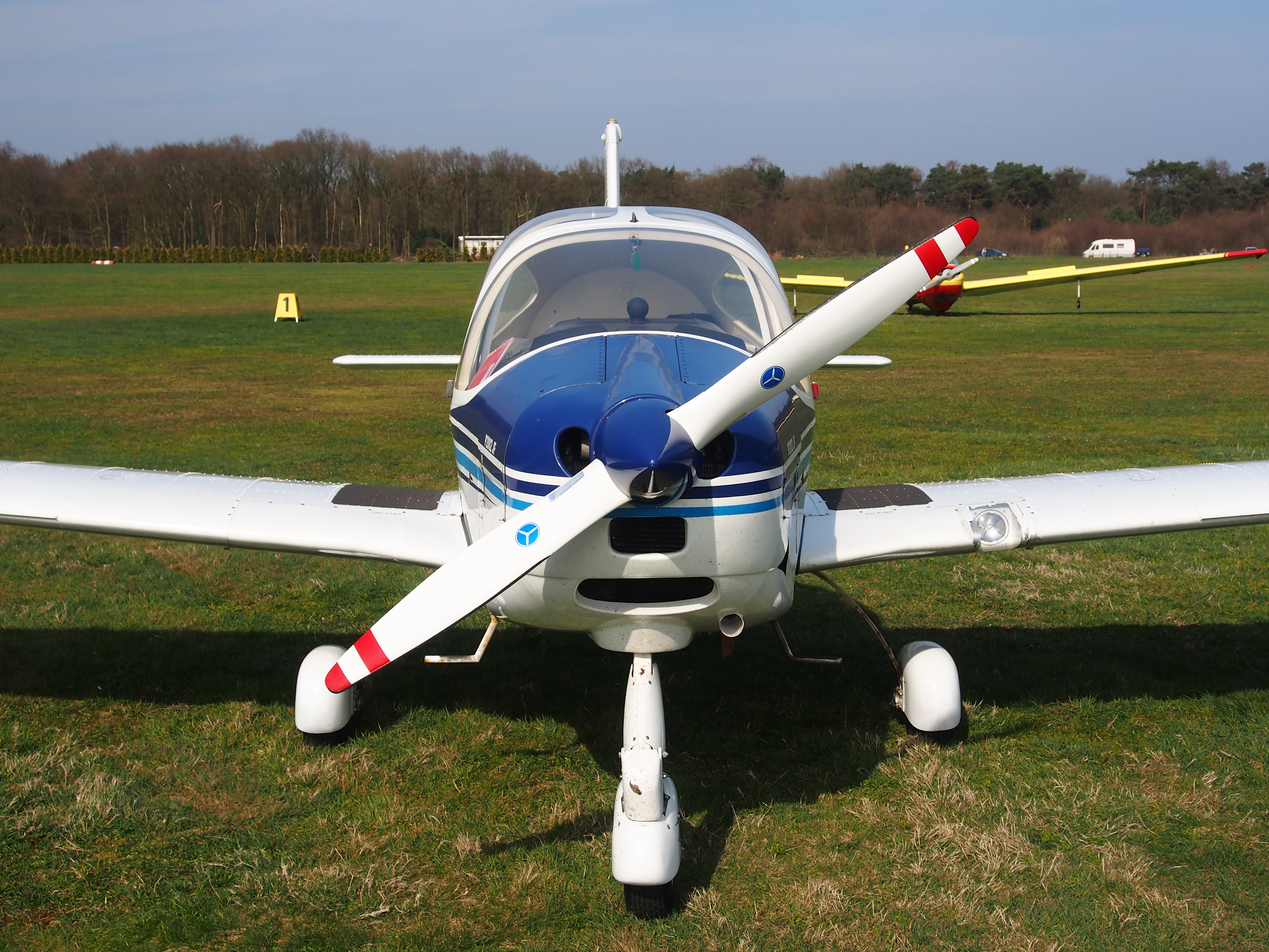 Photographed at Hilversum Airport (ICAO EHHV), The Netherlands.